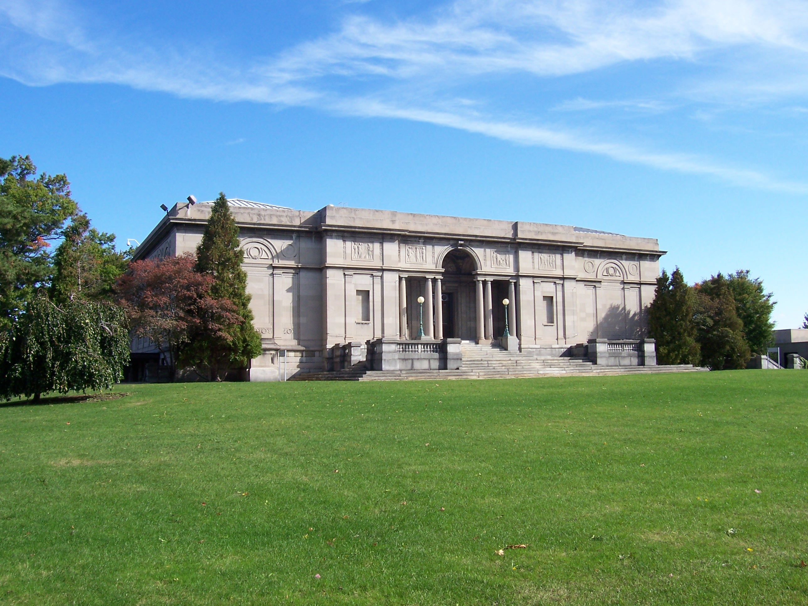 West side of the main gallery exterior, Memorial Art Gallery